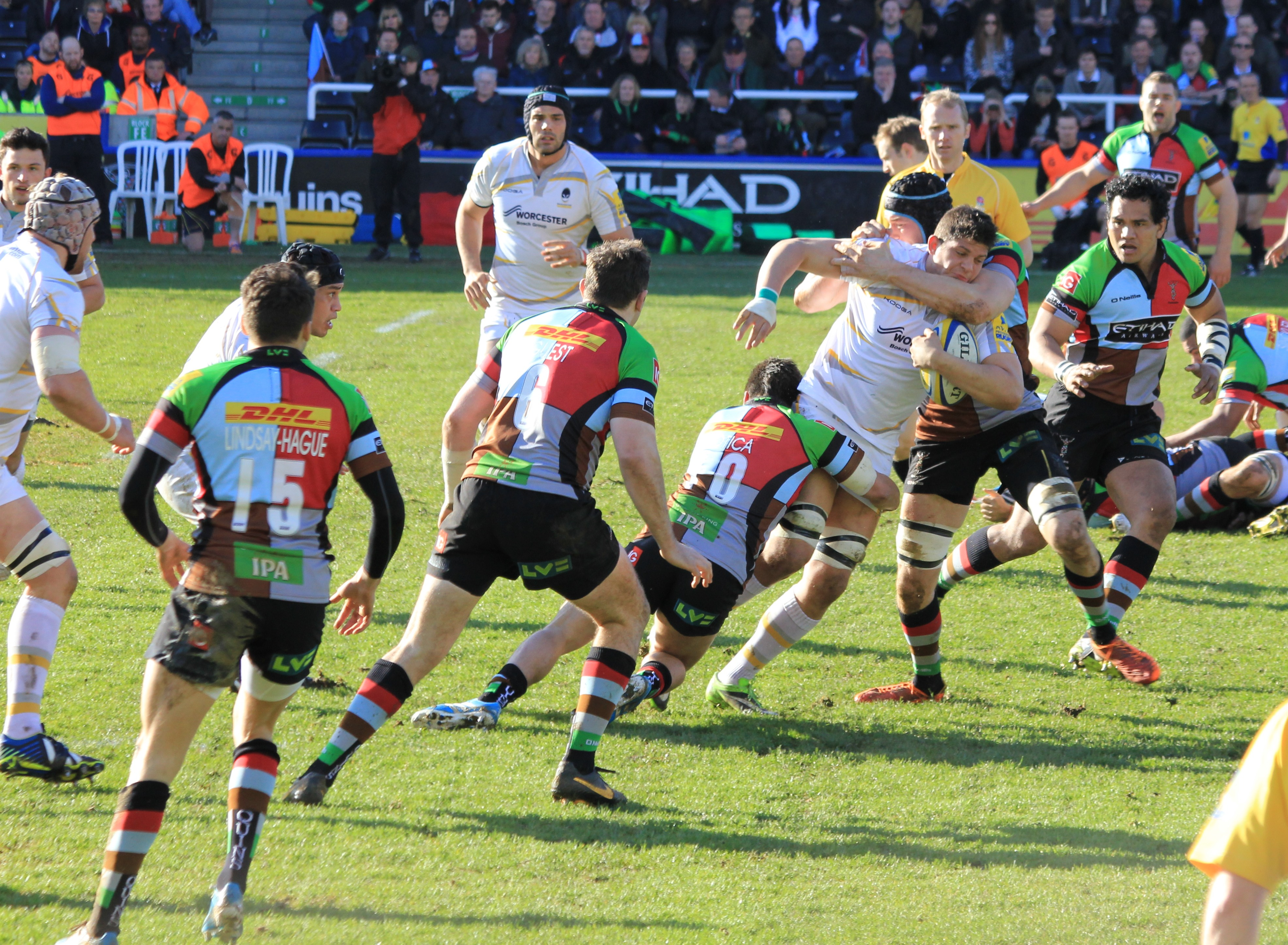 2013-14 English Premiership Harlequins vs Warriors